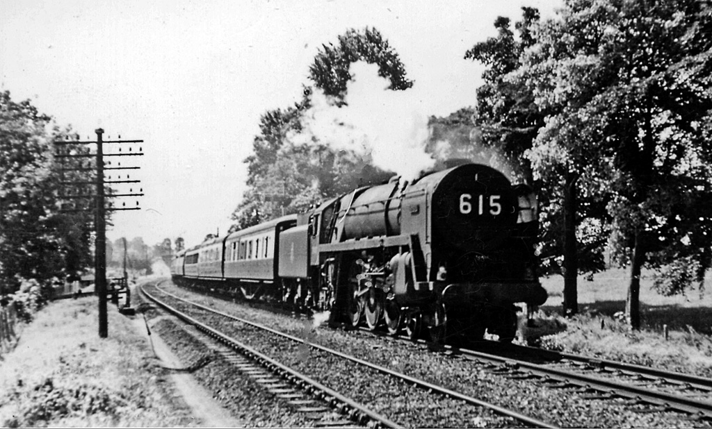 Up express approaching Wellington. View SW, towards Exeter; ex-Great Western London, Bristol etc., Taunton - Exeter - Plymouth - Penzance main line. The 11.30 Torquay - Paddington Summer Saturday extra is descending Whiteball Bank into Wellington, headed by BR Britannia Class 7 Pacific No. 70017 'Arrow'.